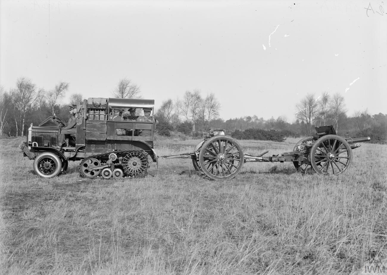 BRITISH MILITARY VEHICLES 1918-1939 Morris Commercial-Roadless Mk.II, Half-Track, Field Artillery Tractor towing an 18 pounder Mk IV field gun and limber.